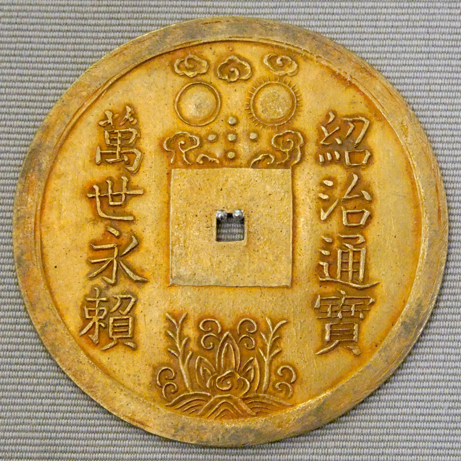 Gold lạng of Thiệu Trị, third emperor of the Nguyễn Dynasty of Vietnam, 1840–1847.